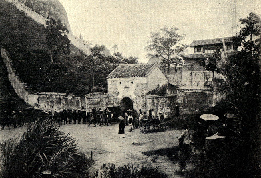 The scene shows the arrival at the “Porte de Chine” of the military commander of Guangxi, Marshal Su Yuan Chuan (蘇元春)[Su Yuanchun] and his official entourage on 16 July 1900. The procession of sedan chairs, guarded by soldiers, had just passed through the outer gatehouse into French Indo-China (Vietnam). Marshal Su had been invited as a guest to celebrate the inaugural train of the railway connecting Hanoi with Dang Dong (同登 Tongdeng ), close to the Nam-Quan (南關) frontier post between China and Vietnam. The large main gate, located behind the small outer gatehouse, survives today as a heritage building near today’s Friendship Pass (友誼關 友谊关 Youyiguan.)